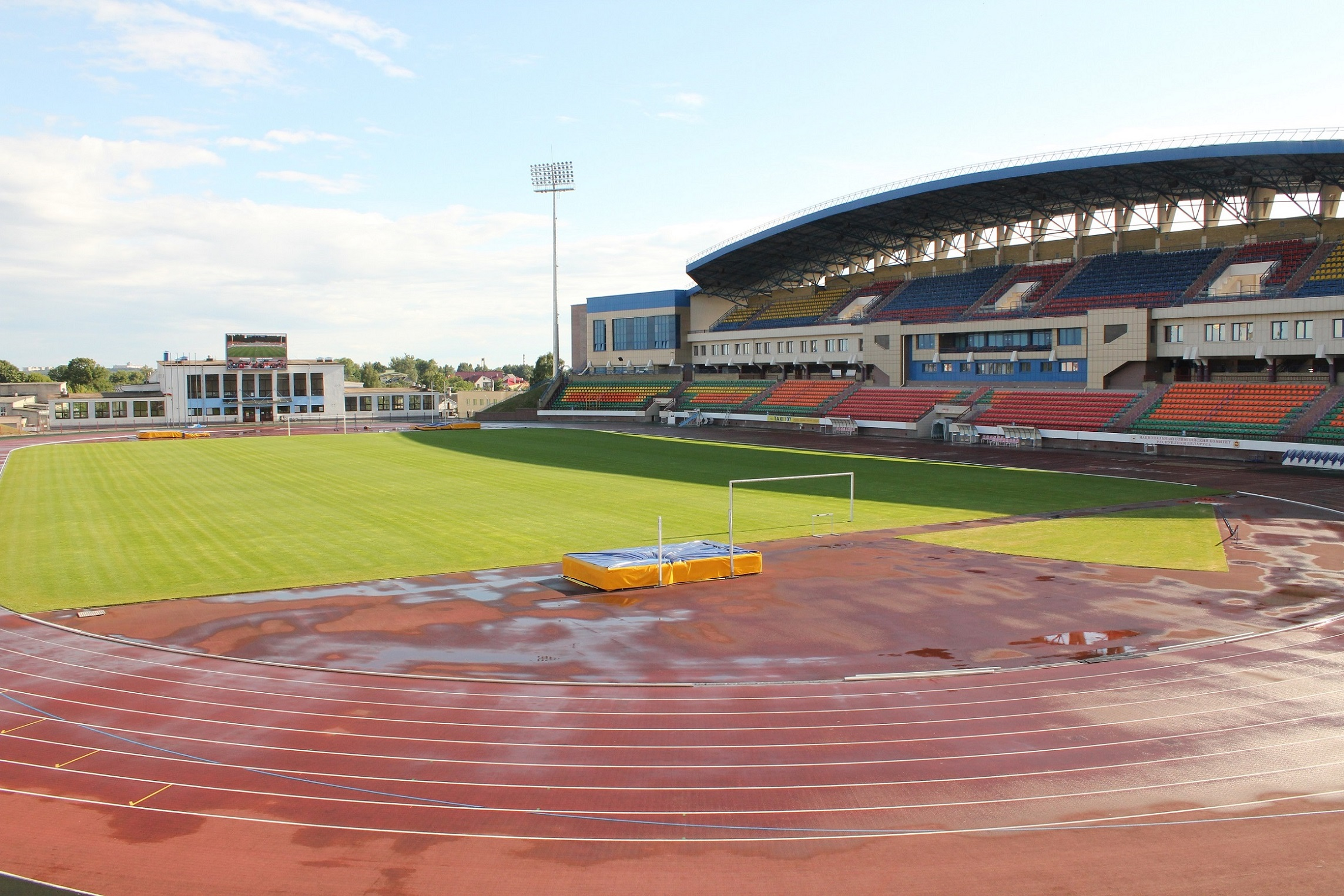 Nioman Central Sport Complex (2015)